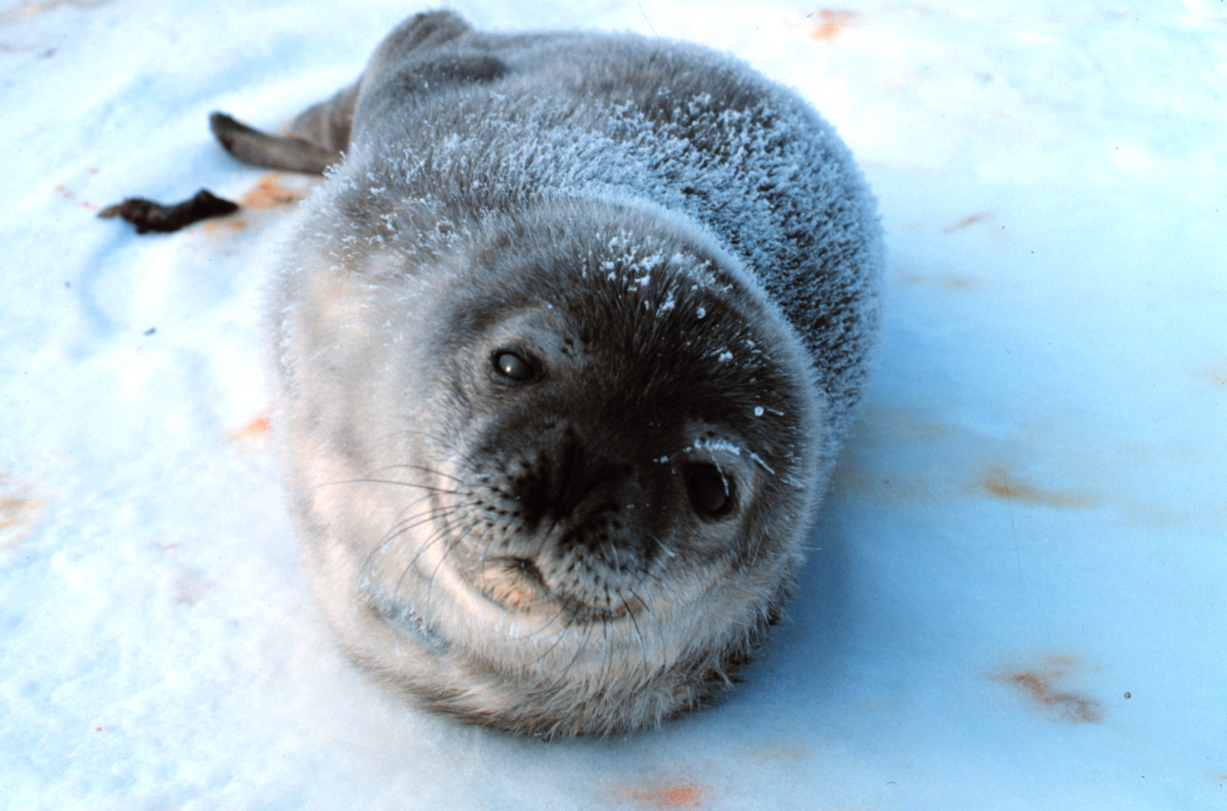 Complete trust - a baby Weddell seal. Antarctica. November 1978.